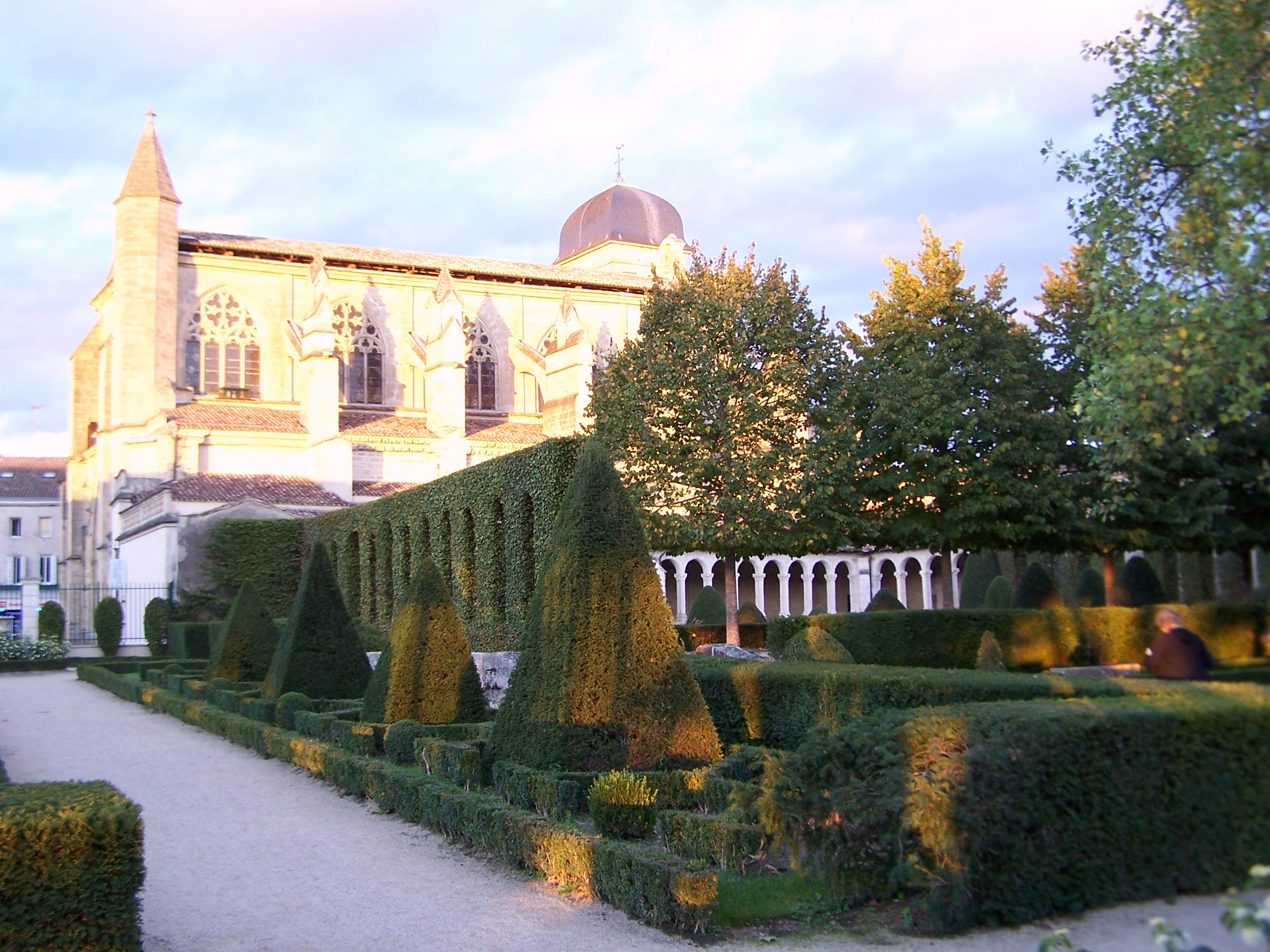 Closter of Our Lady church of Marmande (Lot-et-Garonne, France)